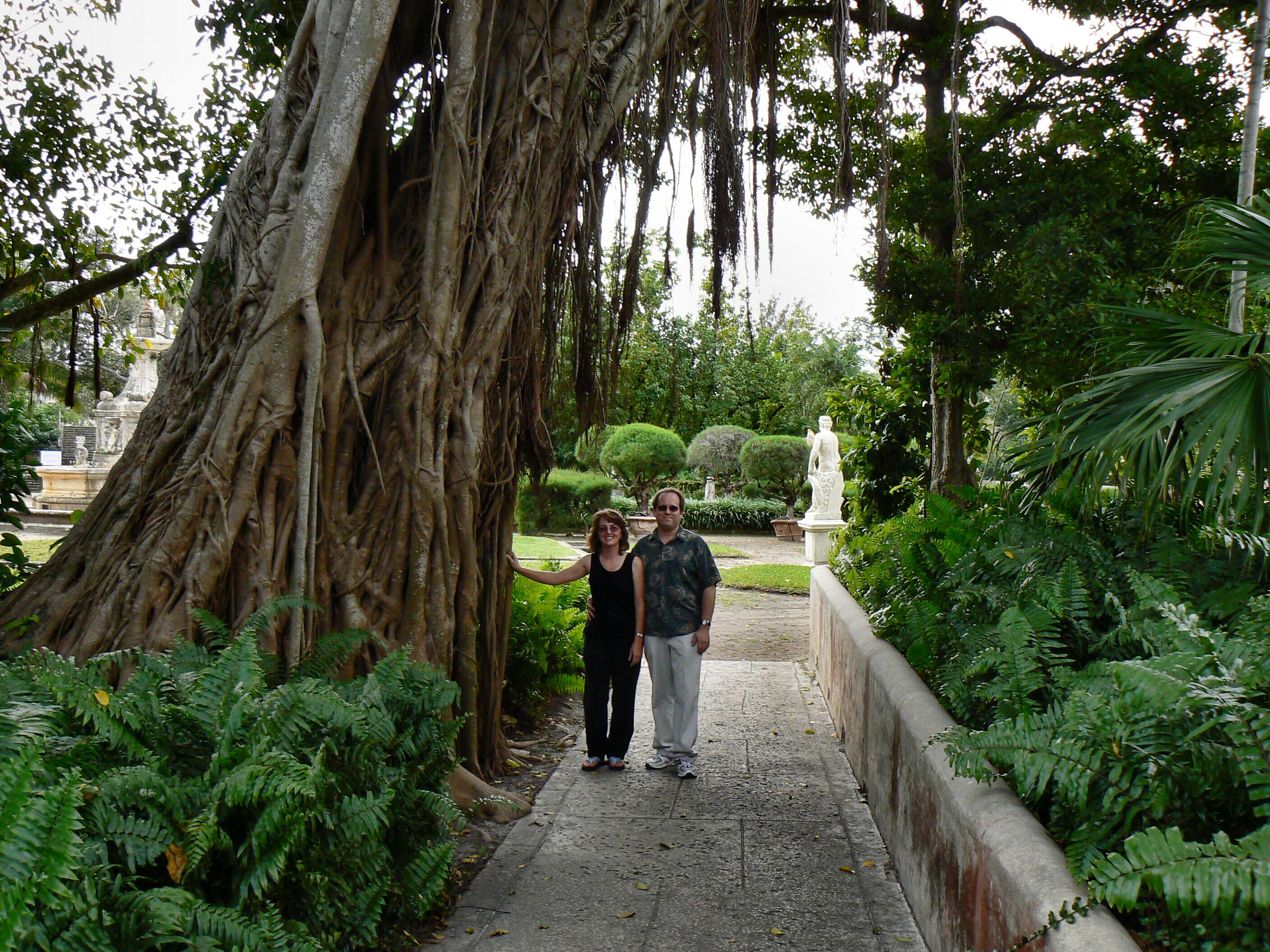 Ficus aurea (Florida strangler fig) tree in the gardens at Villa Vizcaya, Miami, Florida